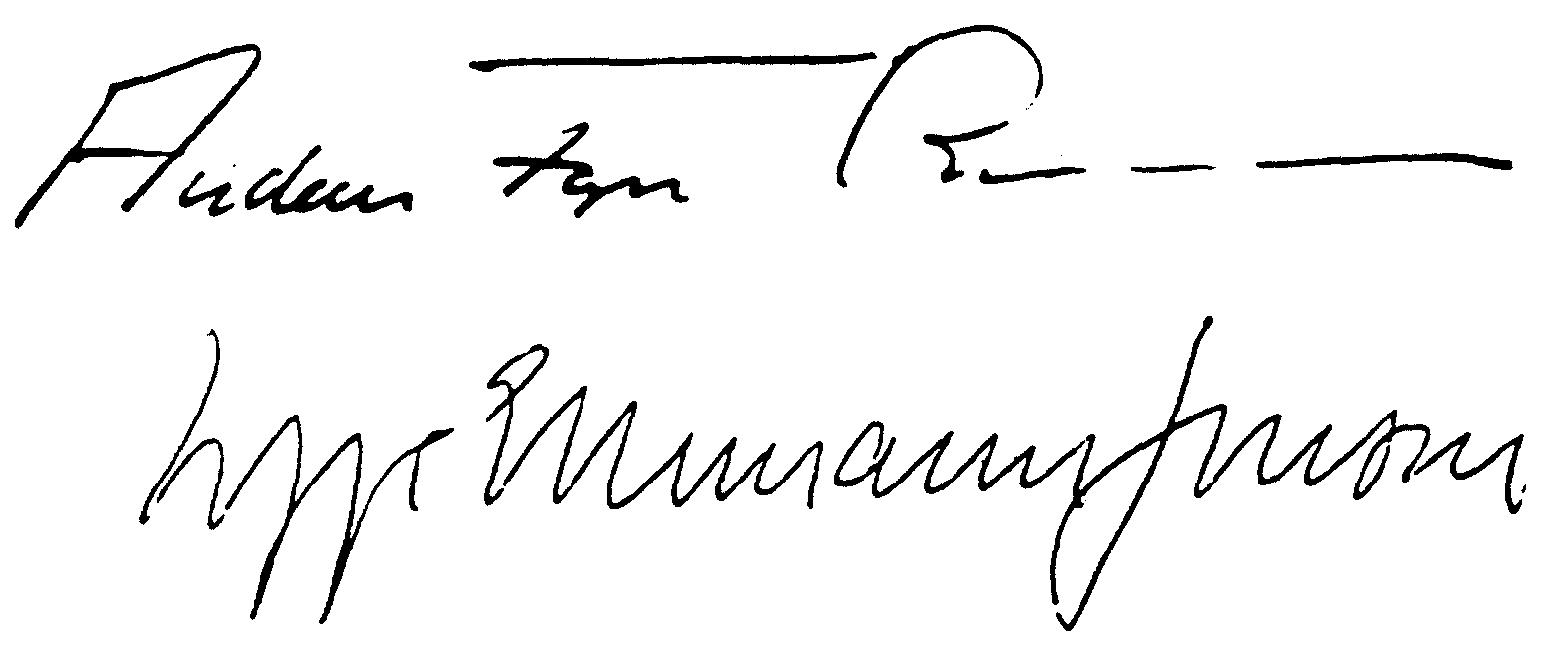 Maastricht Treaty - Final Act Signature by Denmark's representatives (Anders Fogh Rasmussen and Uffe Ellemann Jensen)